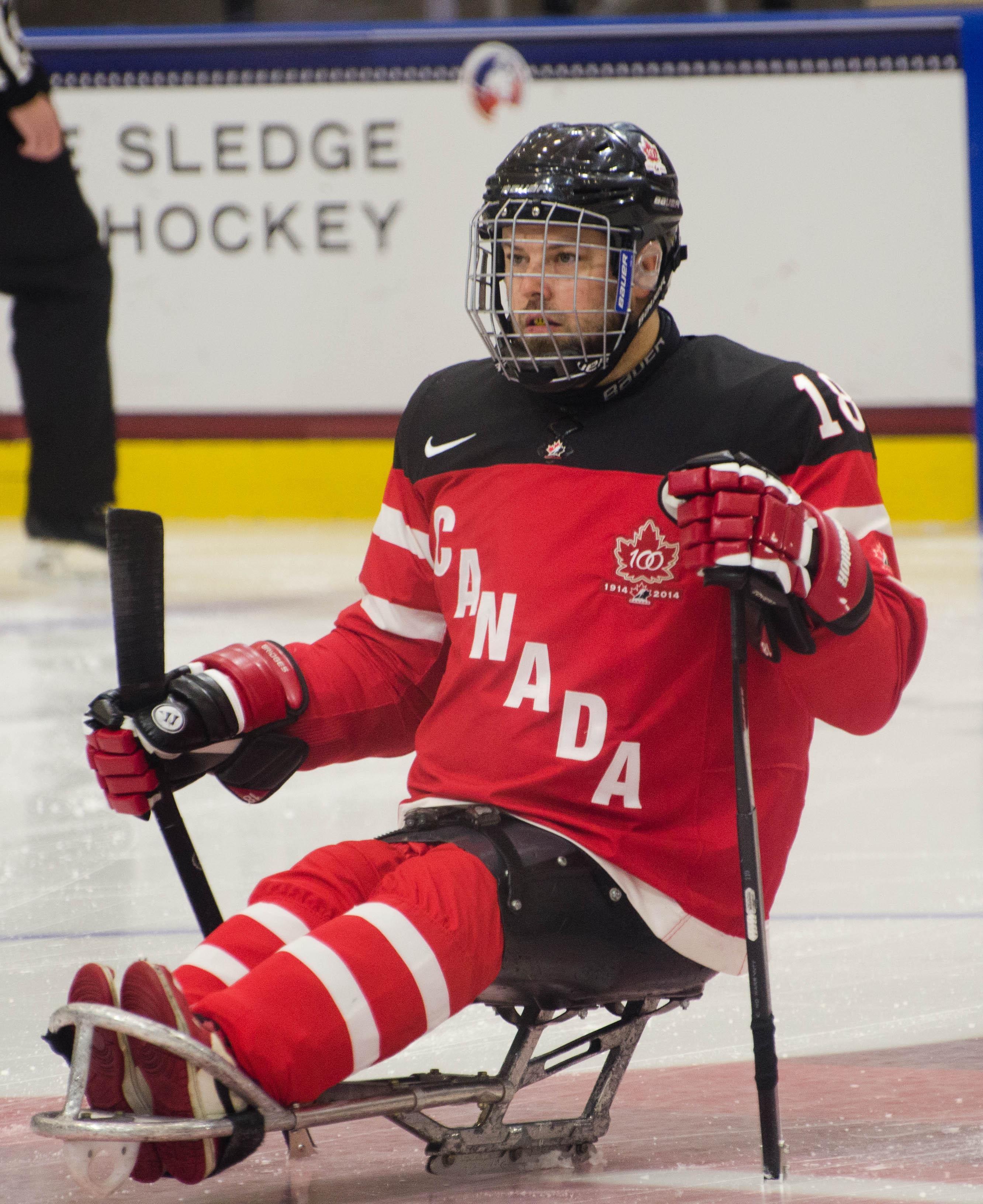 Billy Bridges in 2015